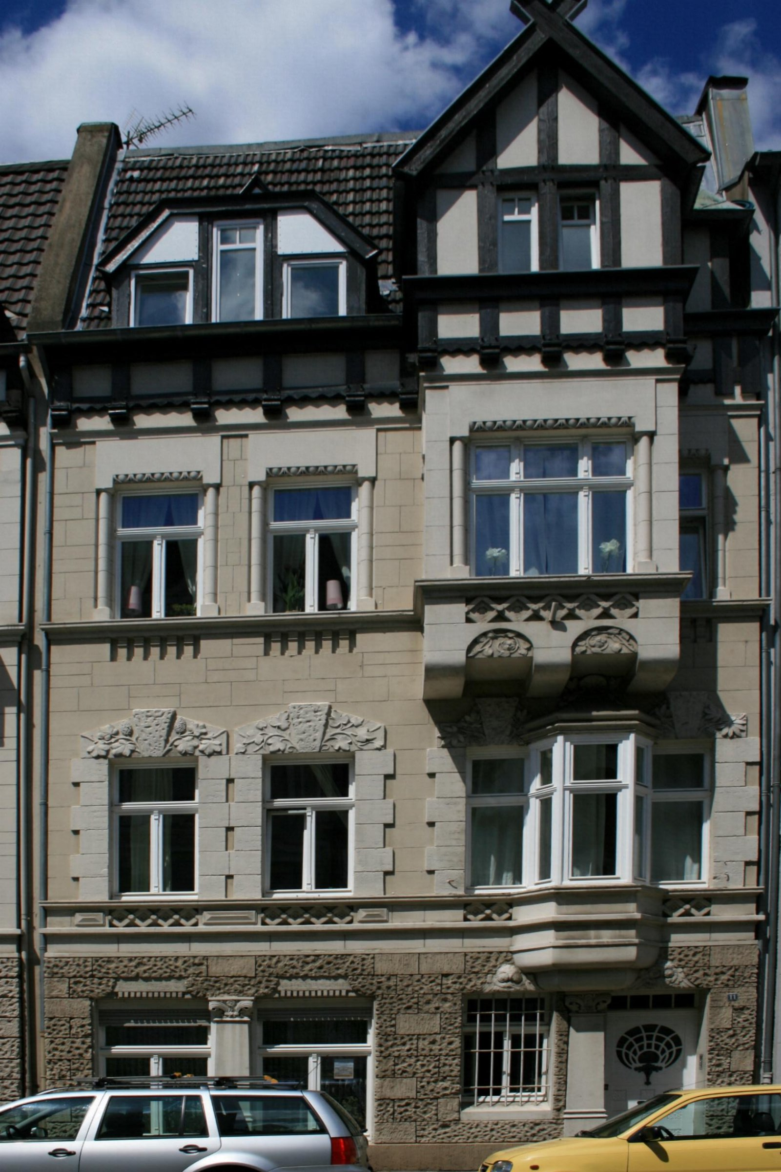 Cultural heritage monument No. G 035 in Mönchengladbach